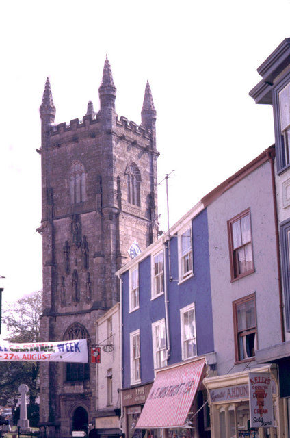 View east along Fore Street, St Austell, Cornwall, to the tower of Holy Trinity parish church, taken in August 1966